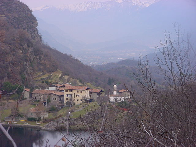 Capo di Lago (Italy) from on high